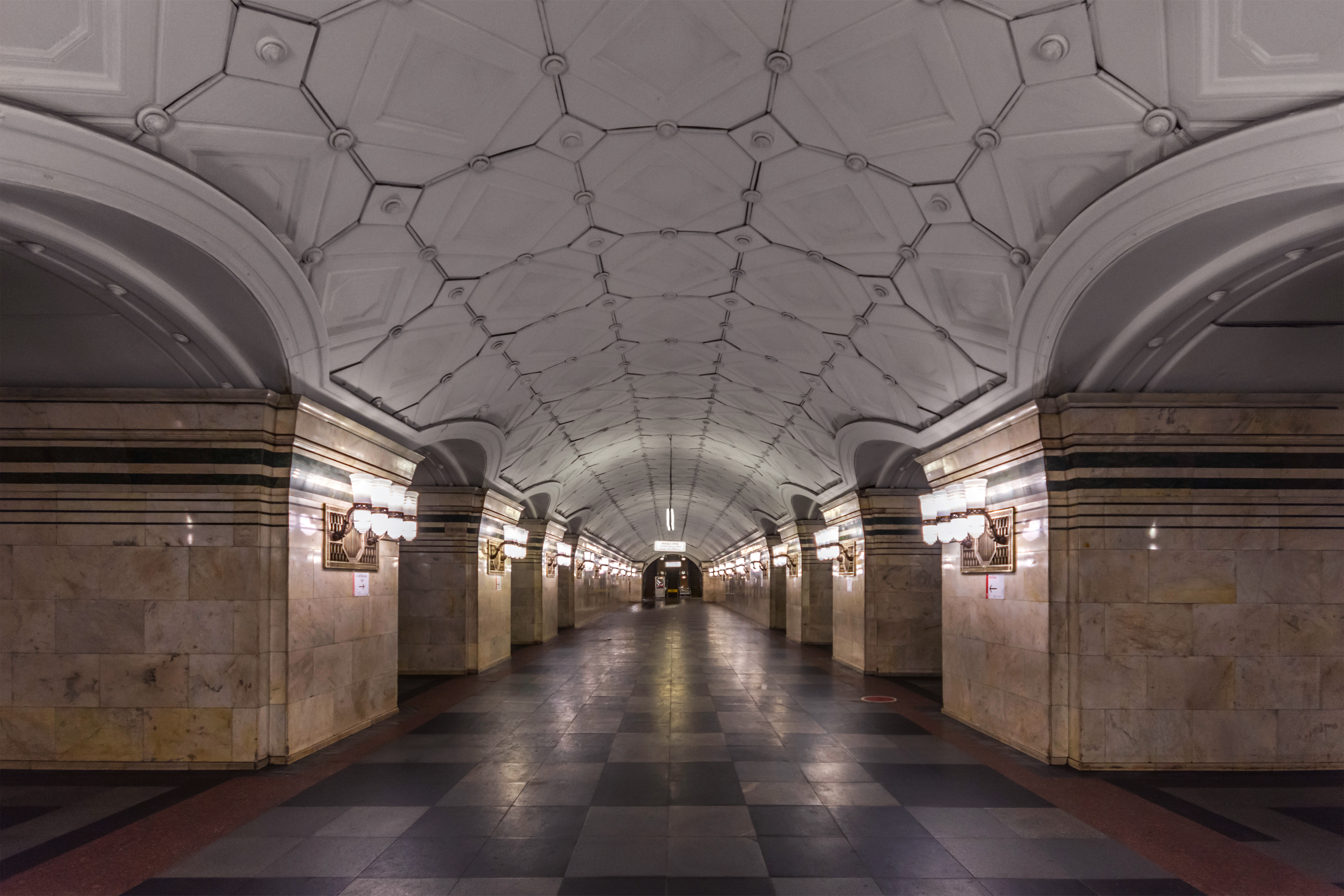 Sportivnaya Station of Moscow Subway